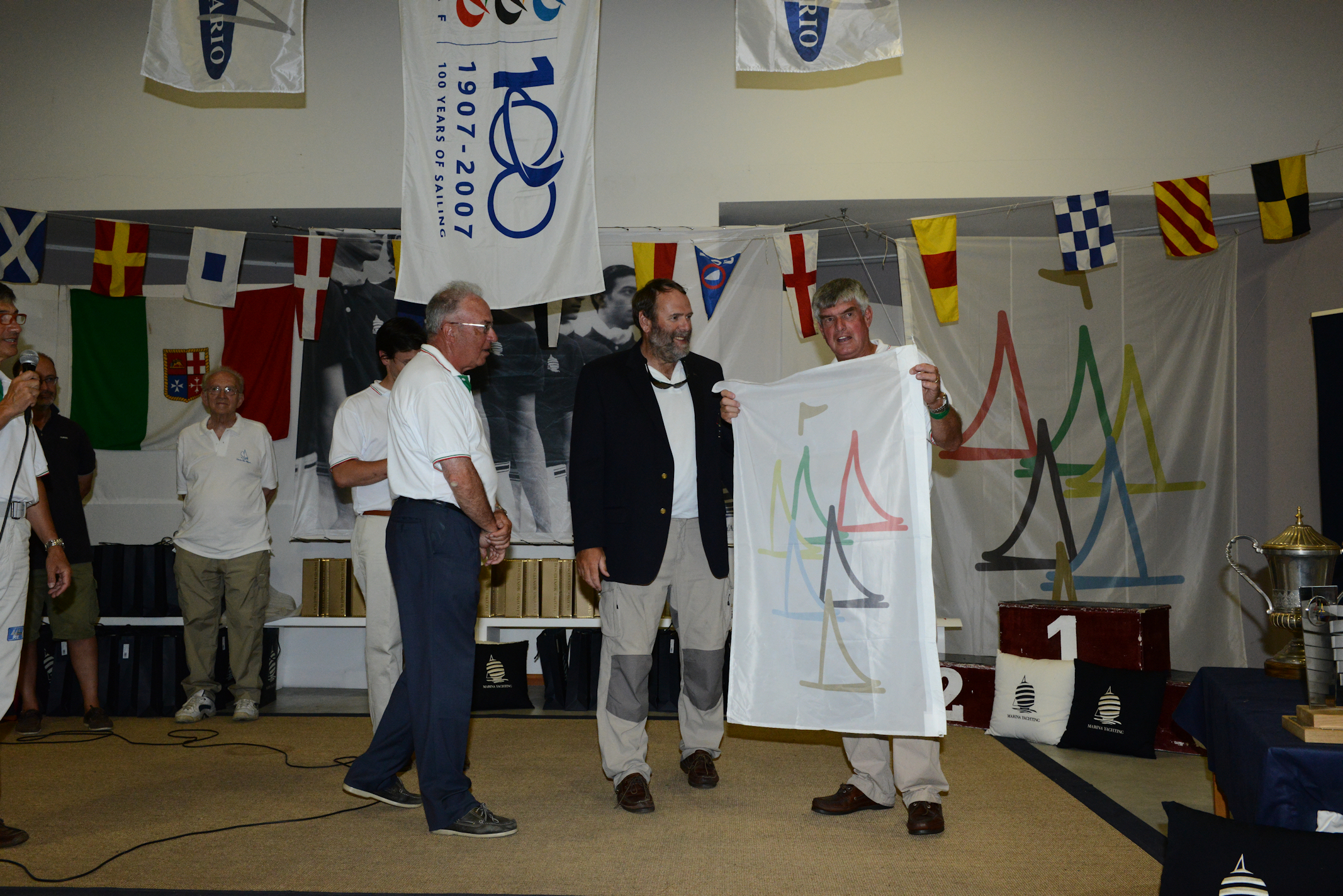 Transfering the Vintage Flag from ITA to GBR for the 2016 Vintage Yachting Games